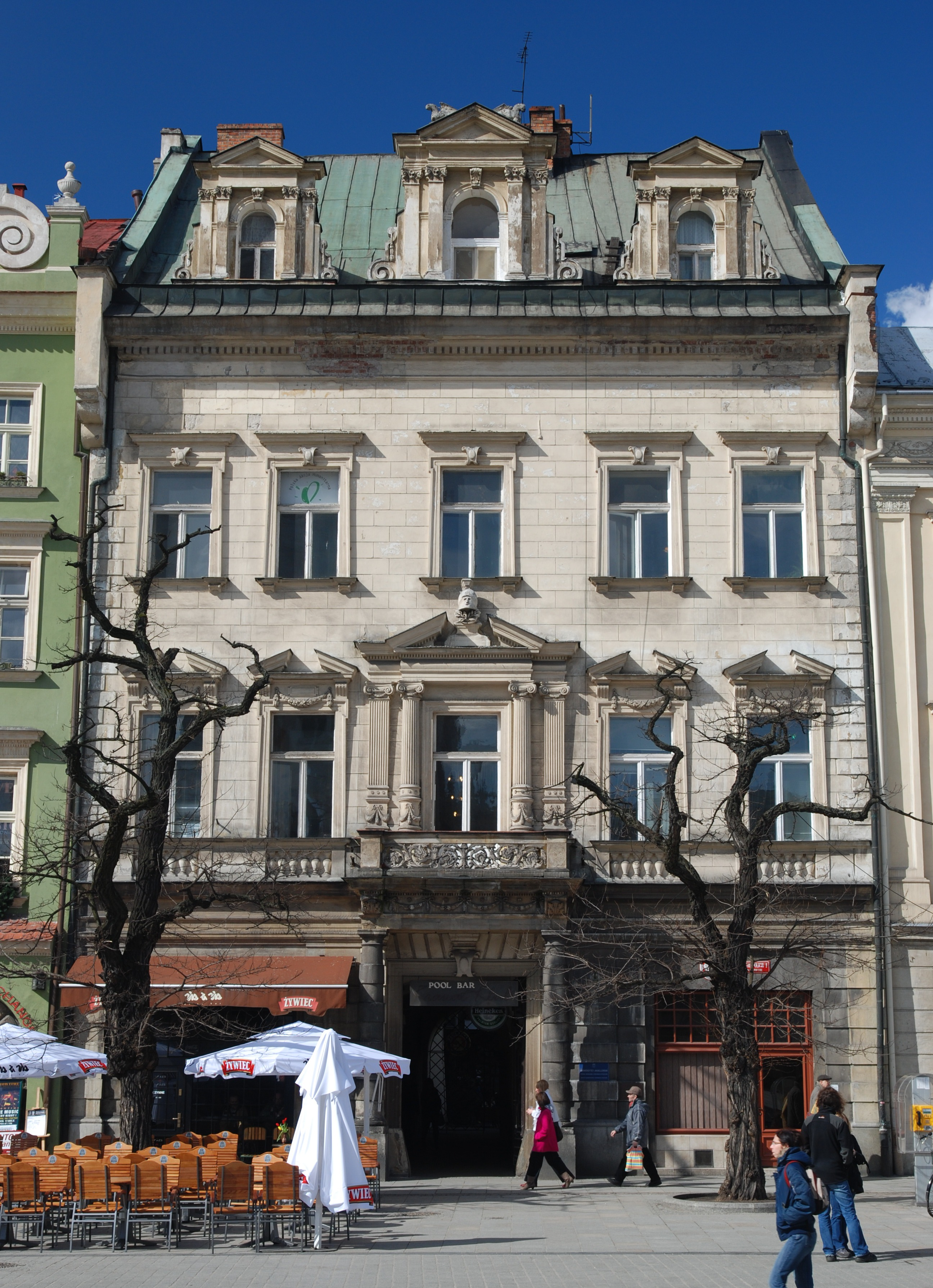 "Pod Blachą" house. 29 Old Town Market Square in Kraków